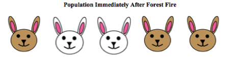 Rabbit population after the forest fire.